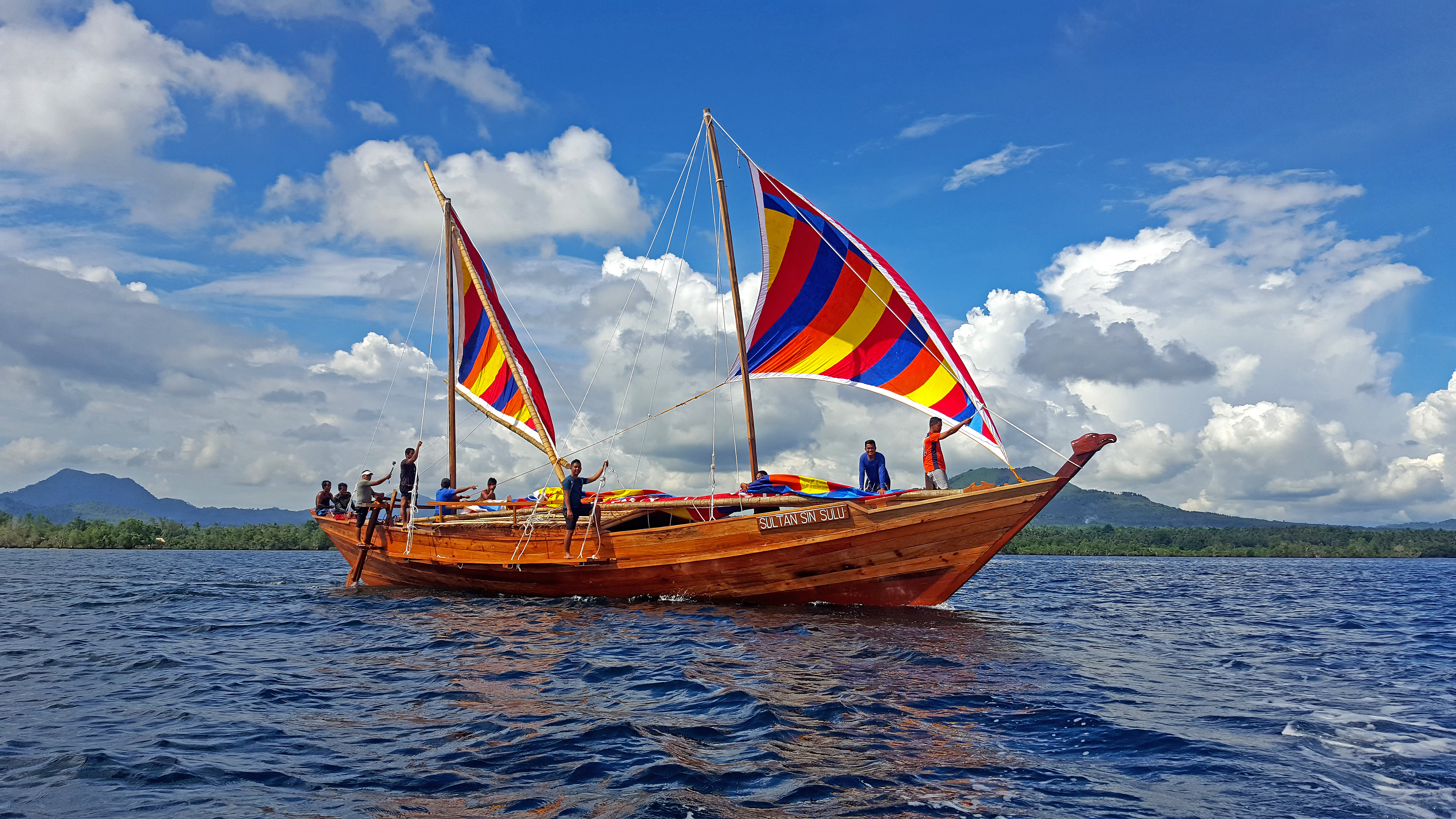 Balangay boat "Sultan sin Sulu" in her maiden sea trial in the waters of Sulu Sea.